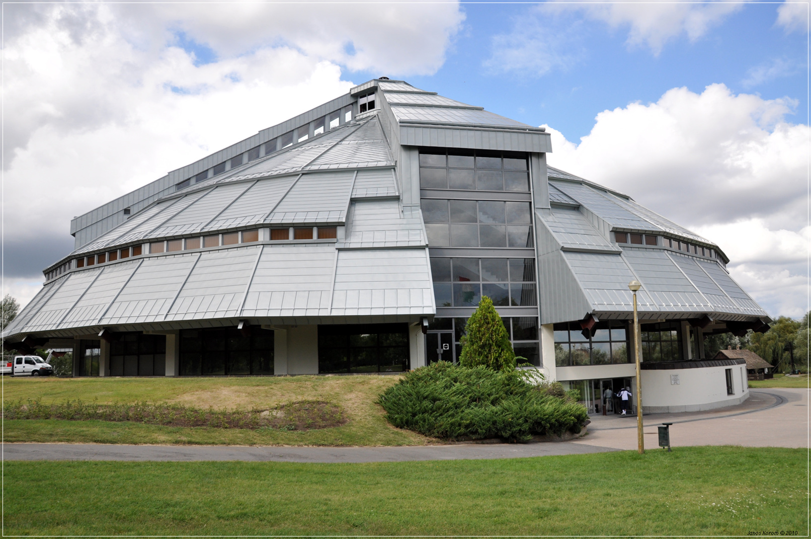 Rotunda in the Ópusztaszer National Heritage Park, Hungary. The Feszty Panorama is in this building.